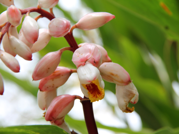 Garden biotanical June